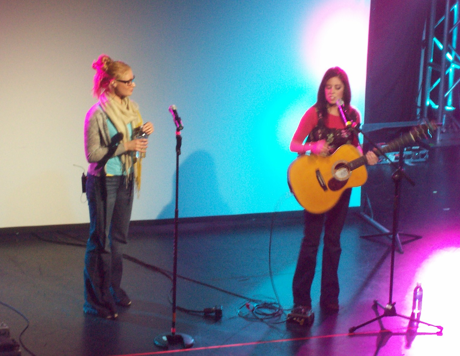 Christian sister duo Tal & Acadia performing at the Manitowoc Roncalli High School in April 2009. They were the opening act on Superchicks national tour.